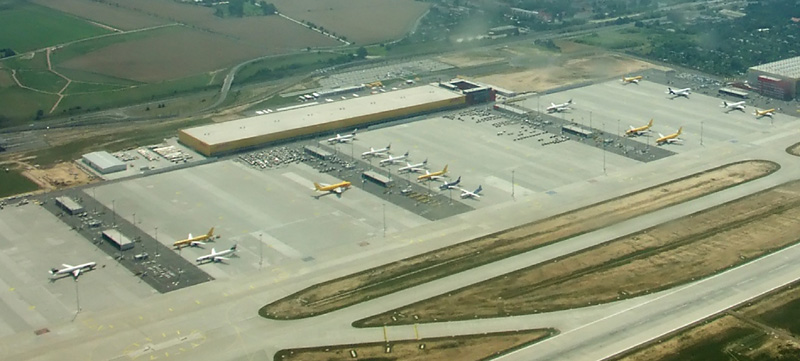 DHL Hub Leipzig (middle) and EAT Leipzig (right image border) at the airport Leipzig/Halle